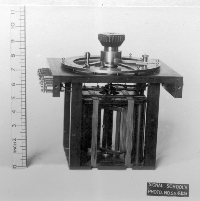 This image shows a Royal Navy Signals Establishment's S 25 model radiogoniometer's internal workings. The key element, the "sense coil", is roughly centred in the image, with a small set screw in the middle of its mounting. The knob on top rotates the sense coil around the vertical axis, which the screw is set into. Radiogoniometers generally have two sets of coils of wire set at right angles, either spread out over a frame, or as in this case, bunched together into two sets. Two sets of these coils are clearly visible face-on to the camera, while the second set can only be seen running left-right across the top of the internal frame(of the other set of coils). The vertical sections of the second pair is hidden behind the vertical supports. Radiogoniometers operate by re-broadcasting a radio signal received in two antennas in the coils seen in this image. The internal sense coil is then spun using the knob on top in order to look for the point where the signal disappears, or alternately, reaches a maximum. This point is indicated by the pointer just below the knob, pointing to the lower right. The S 25 model also includes two additional pointers, one pointing to the right and the other with the small knob on top pointed to the lower left. As the signal very rarely reaches a perfect maximum or "null", the operator would point these to the extremes of the reception pattern, an a simple mechanism would move the center pointer to the average of the two angles. On the left are a series electrical contacts used to connect the mechanism to the receiver unit. This mechanism was dropped into the larger assembly and held in place by screws in the holes seen in this image.